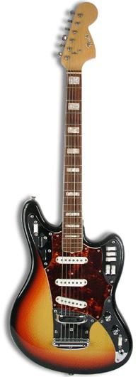 Photo of my friend's Fender Marauder guitar, taken with my six megapixel digital camera, then the background by using Photoshop.